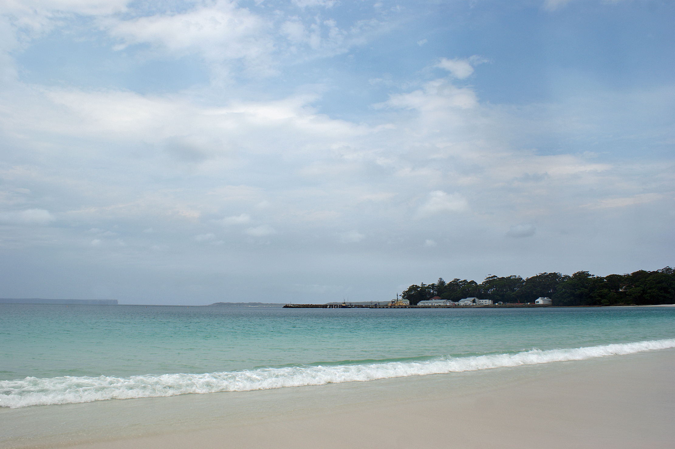 Jervis Bay Village/HMAS Cresswell, Jervis Bay Territorry, Australia